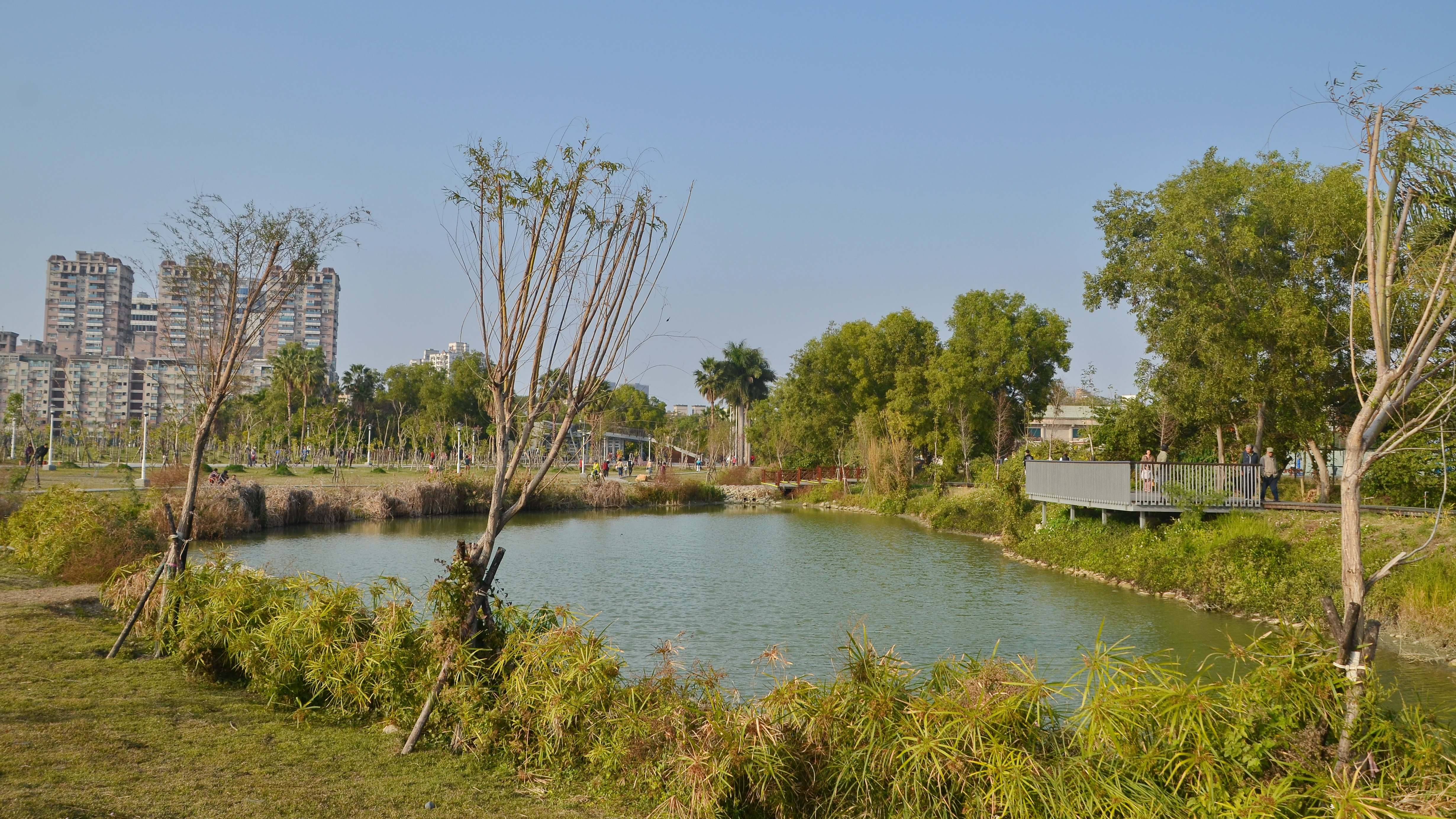 Barclay Memorial Park, Phase 2, Tainan, Taiwan.